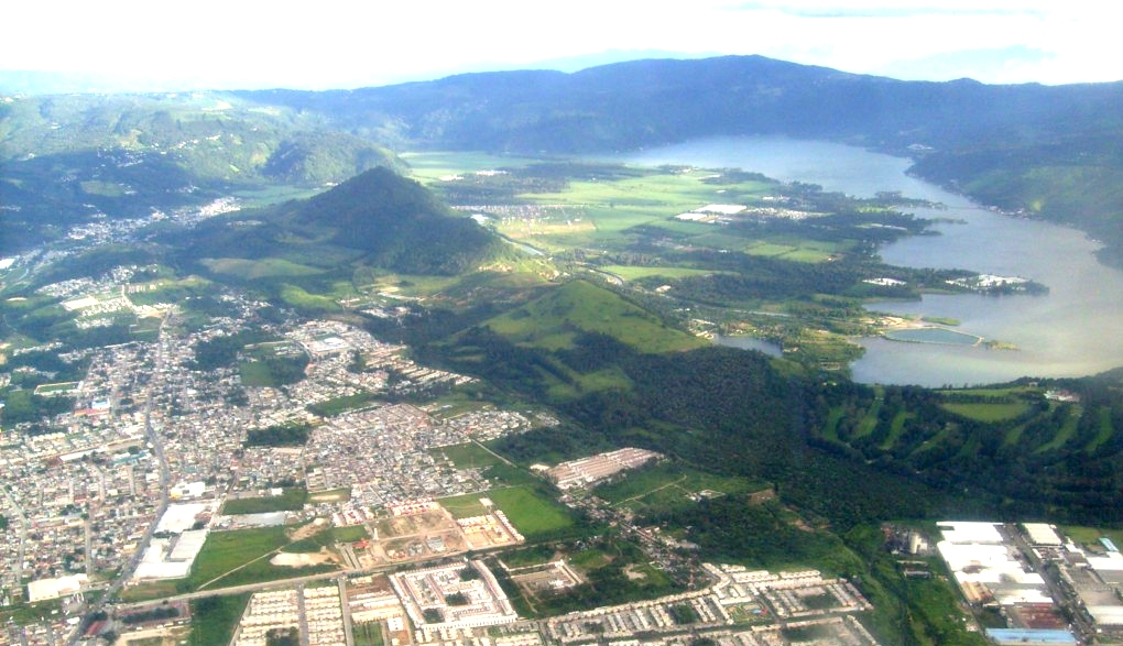 Guatemala city from bird's eye view.